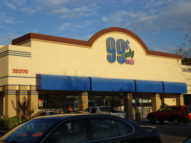 99 Cents Only store, Murrieta, CA.